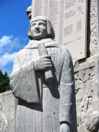 Soissons Monument aux morts